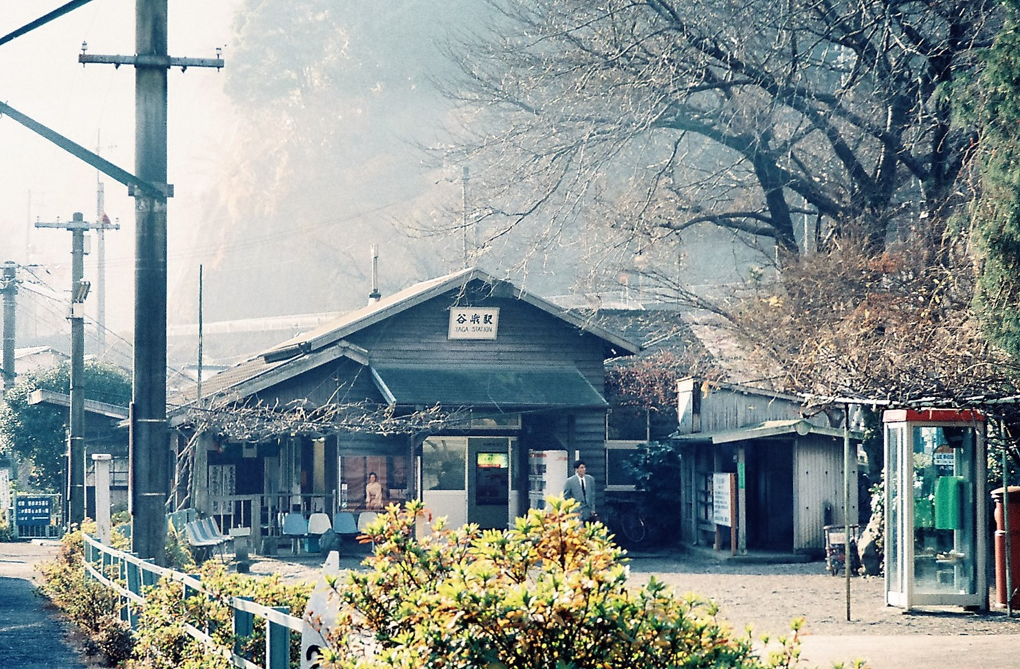 Yaga Station in Kanagawa Prefecture, Japan